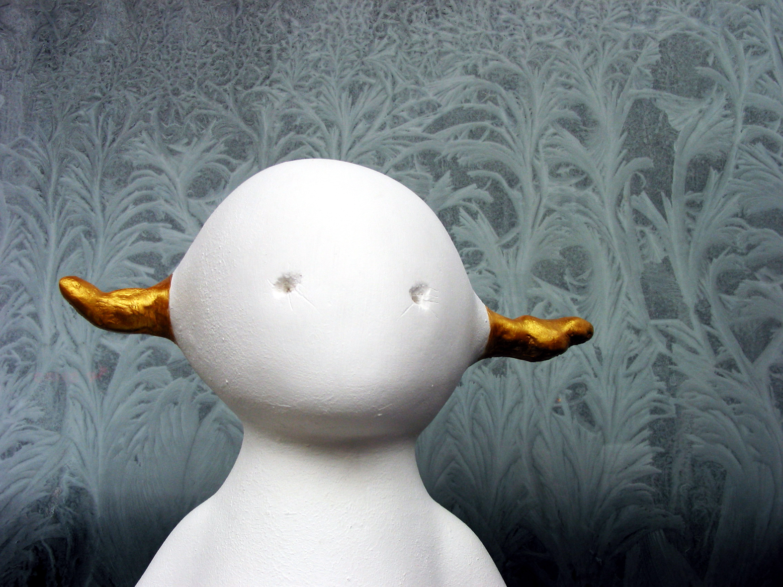 Ruby Dean and the White Silence Nina Staehli